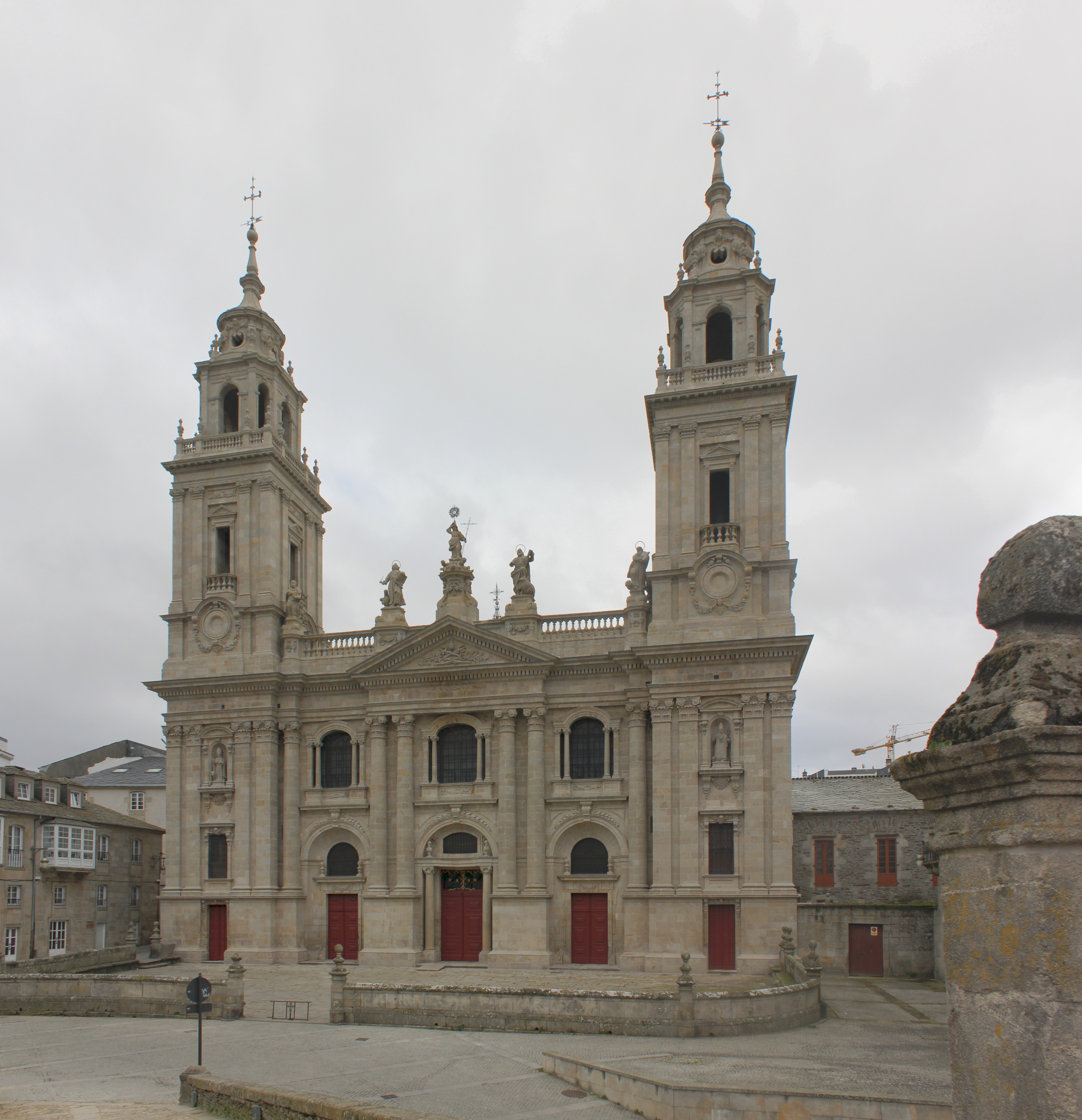 Cathedral of Lugo.